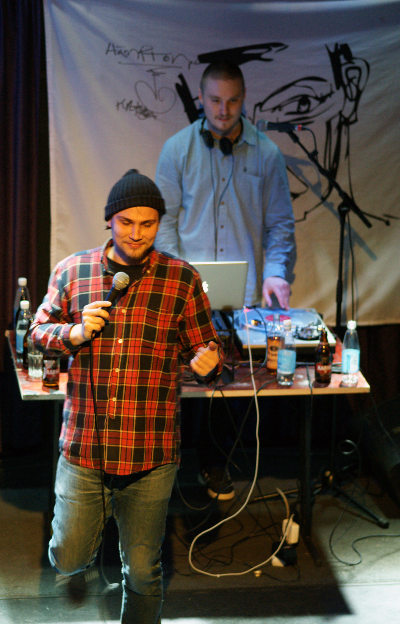 Ruger Hauer performing at Bar Kino, Pori, Finland.